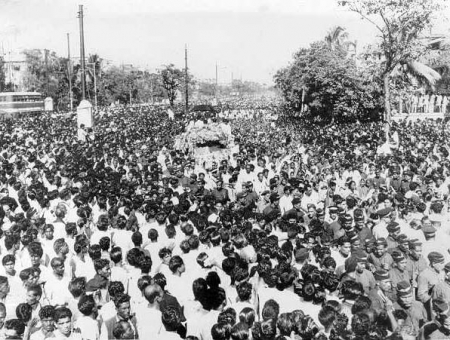 The ocean of people waving the mortal remains of Dr. Babasaheb Ambedkar towards the 'Chaitya Bhoomi', Mumbai, which had never been seen in the history.